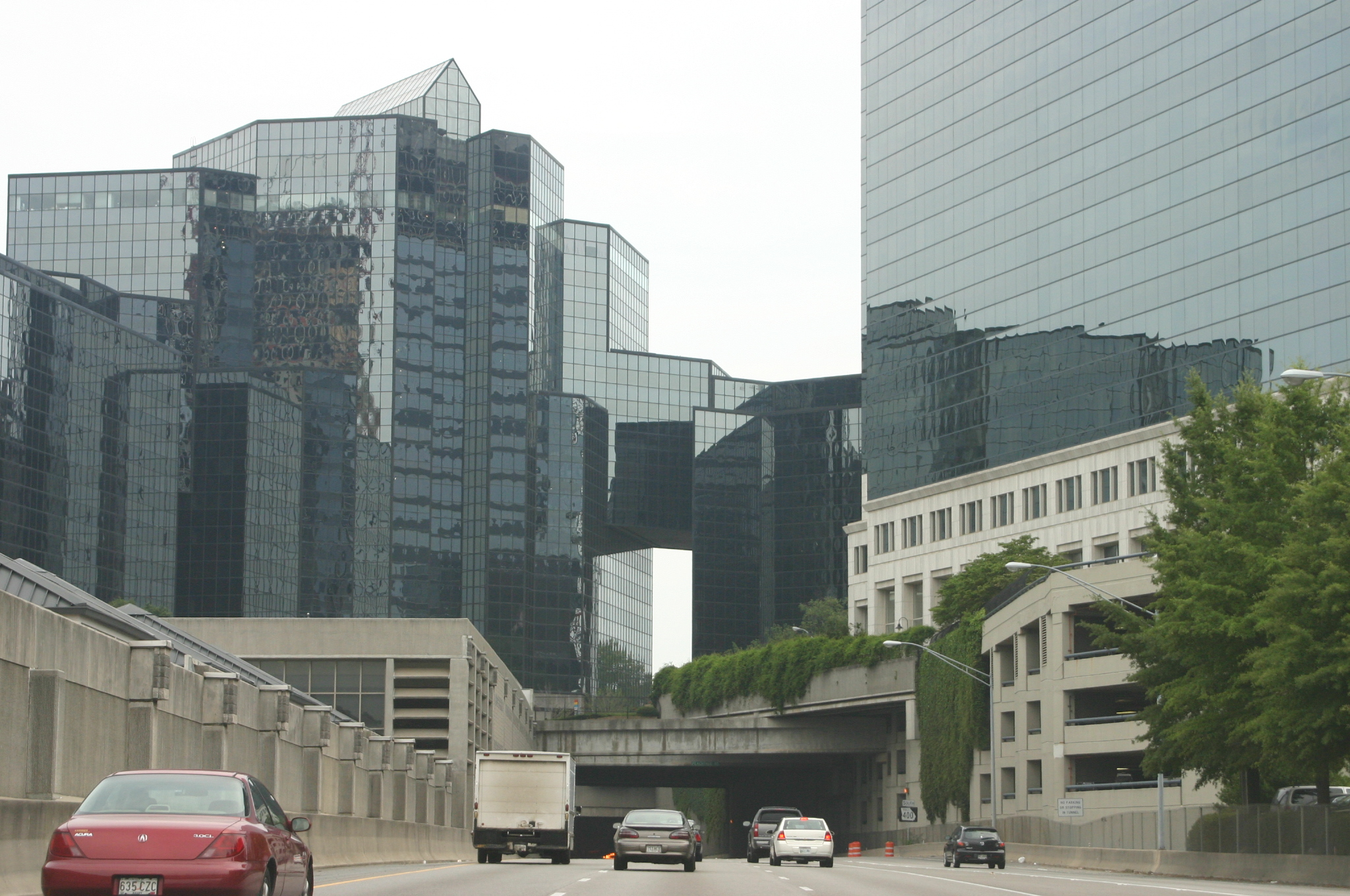 Underpass on 400 Southbound under Buckhead.